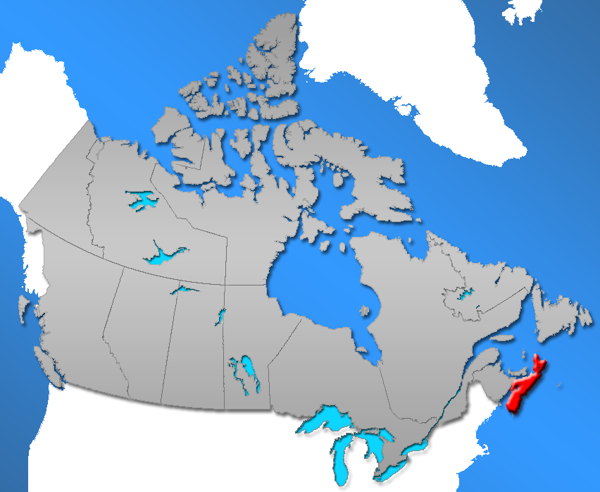 Province of Nova Scotia in Canada